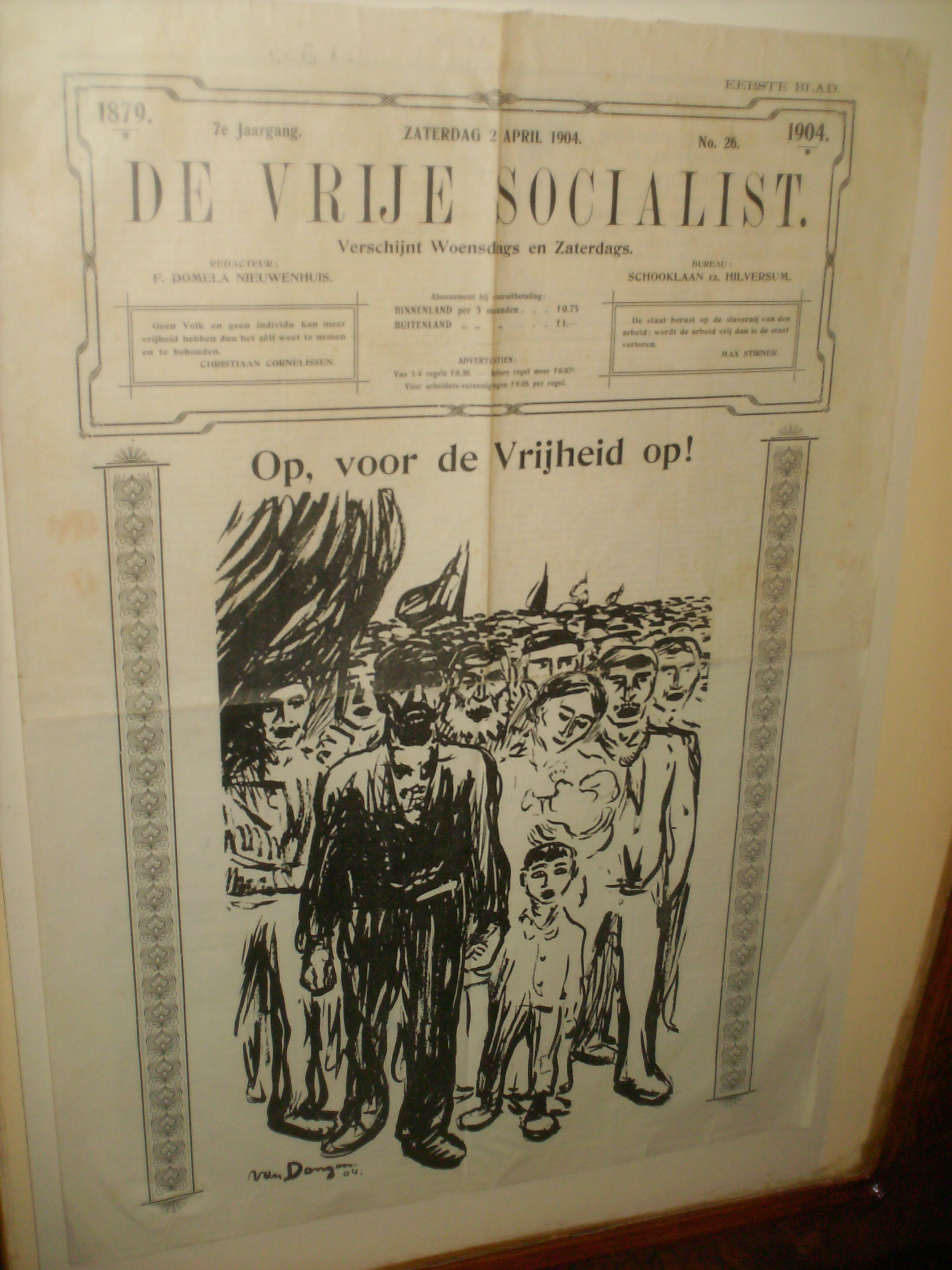 Picture of de socialist newspaper 'De Vrije Socialist' as exposed in the Ferdinand Domela Nieuwenhuis museum in Heerenveen, The Netherlands